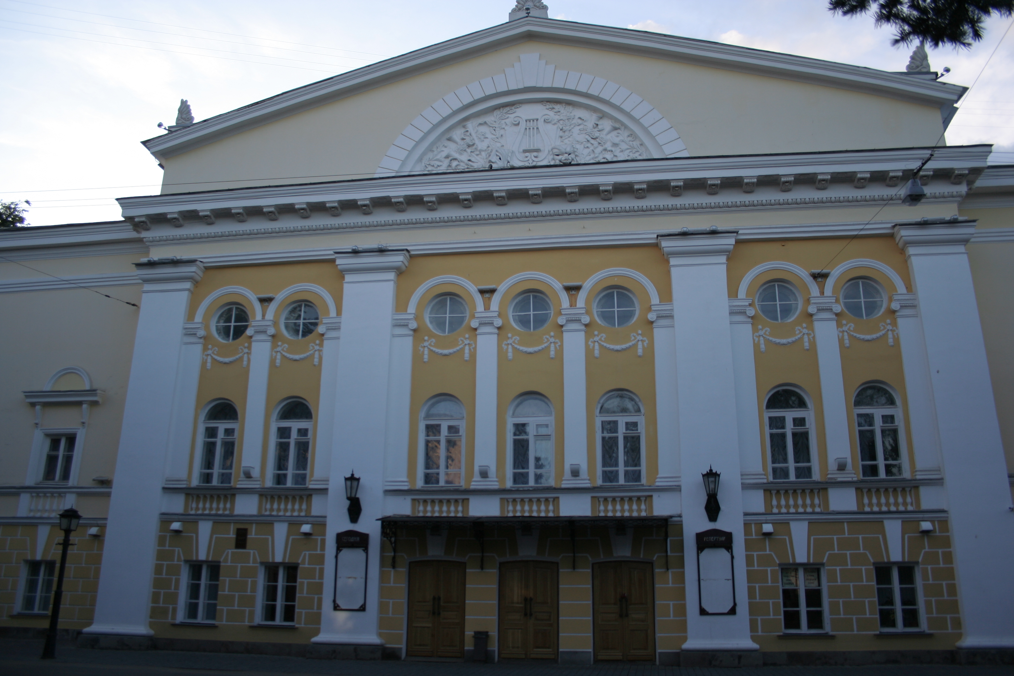 The building of the Ostrovsky Drama Theater in Kostroma, Russia.